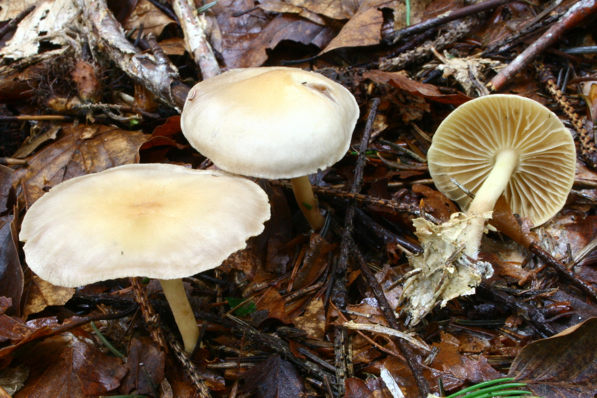 Gymnopus peronatus (formerly Collybia peronata) in the Black Forest in Germany near St. Peter.